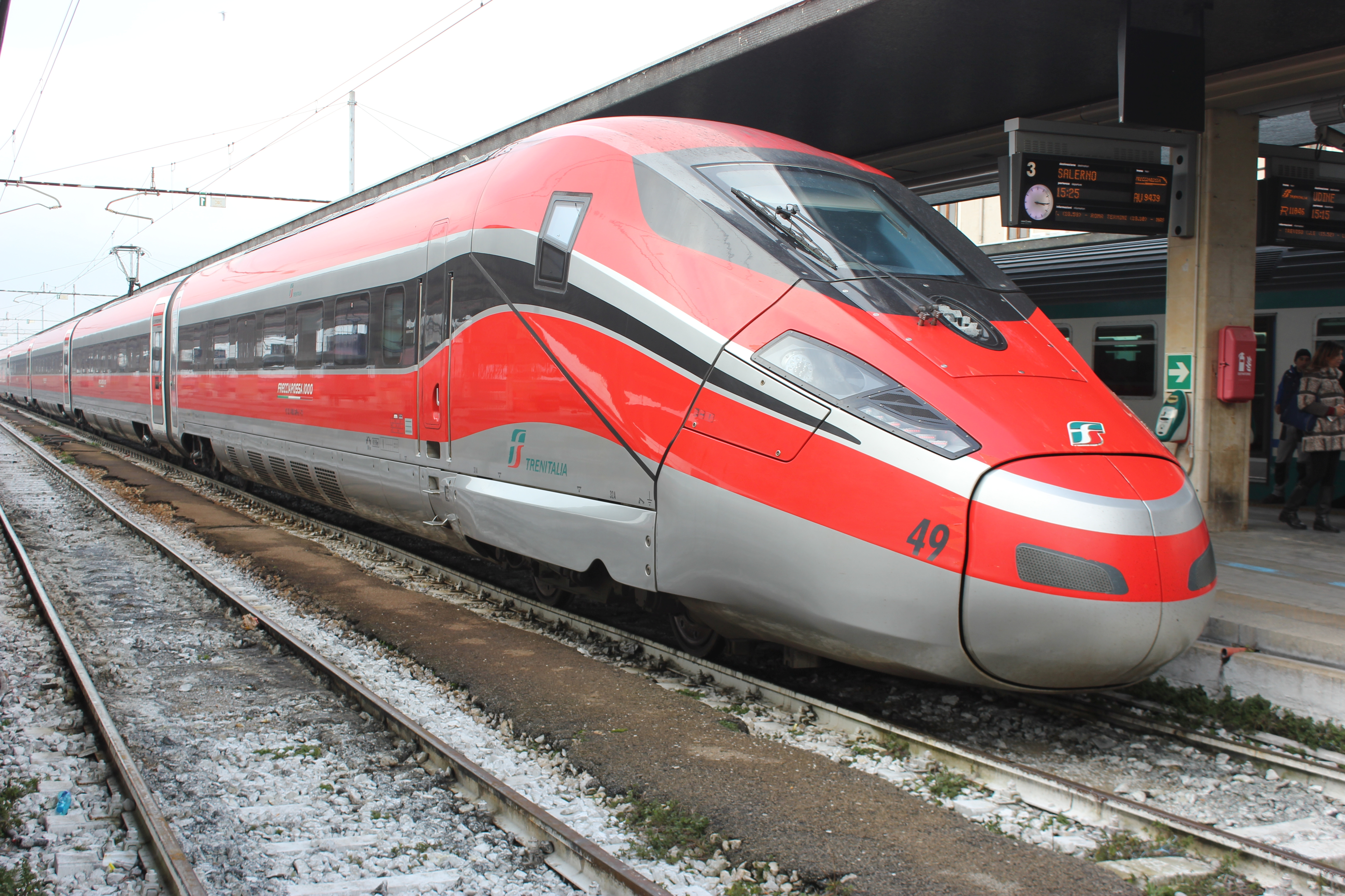 Venice - ETR400-49 (FrecciaRossa 1000) train at Santa Lucia station